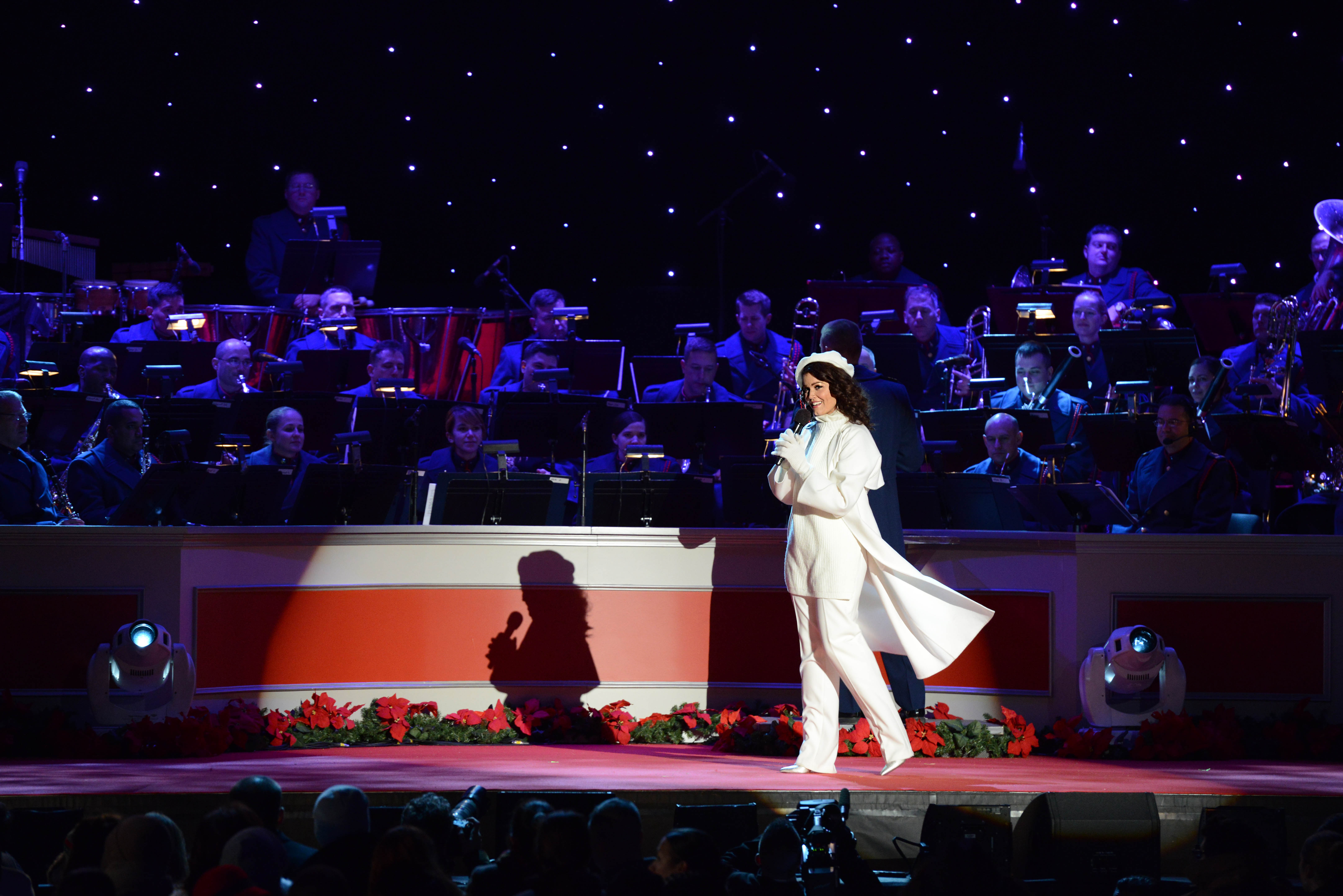 Bellamy Young performs a Christmas song with the U.S. Coast Guard band during the 2015 National Christmas Tree Lighting ceremony in President's Park, Dec. 3, 2015. U.S. Coast Guard photo by Petty Officer 2nd Class Diana Honings.